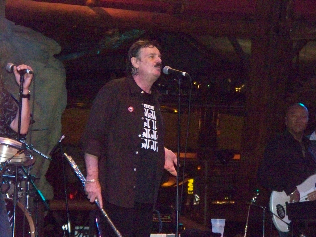 Burton Cummings, lead singer and songwriter of the Canadian 1960s-70s band The Guess Who, performed with his band at Mohegan Sun Casino in Connecticut, on July 2, 2011--this was the first concert of his US tour.